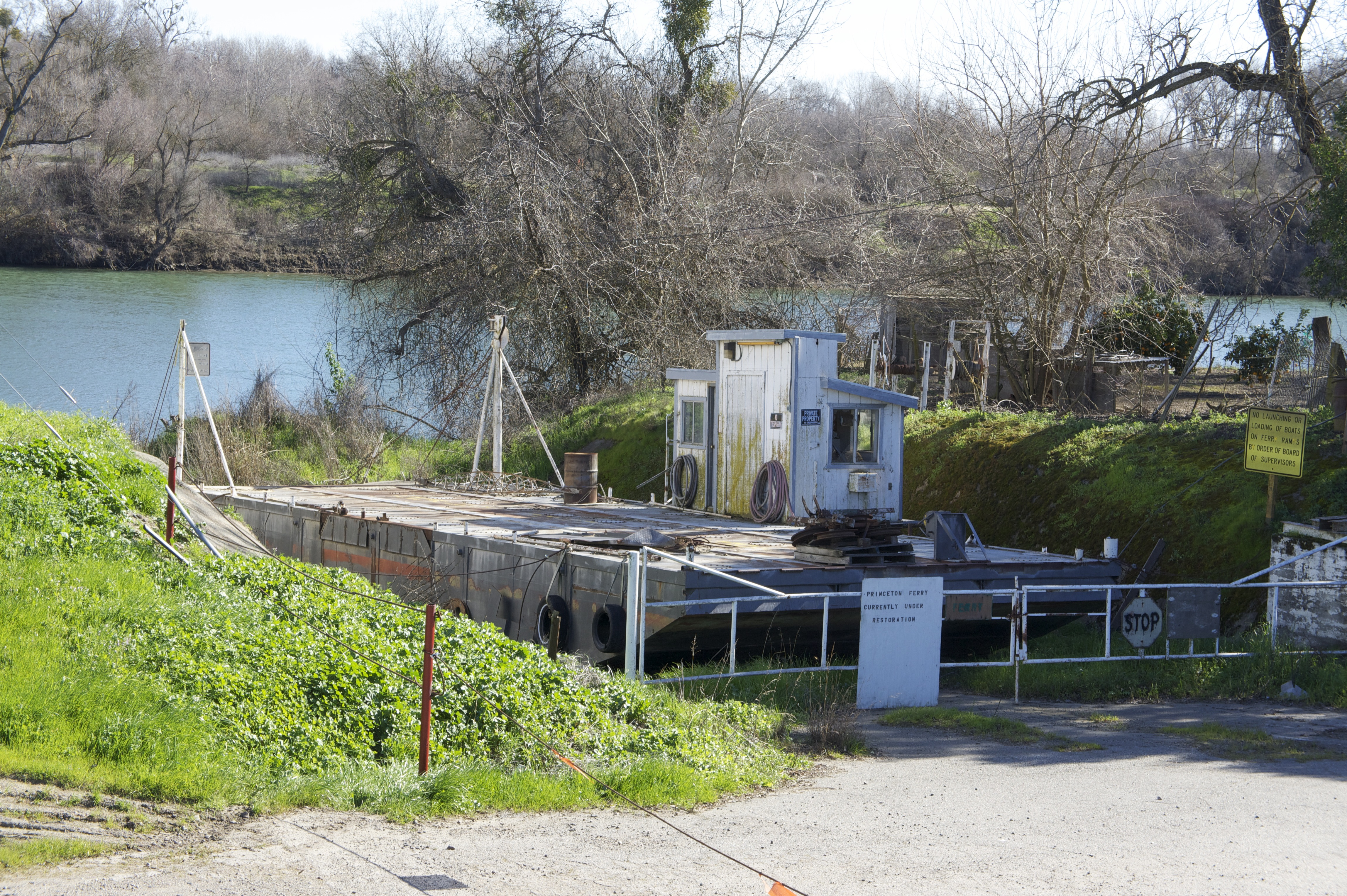 The Princeton Ferry, located at a crossing on the Sacramento River in Princeton, CA (Colusa County). The sign says "PRINCETON FERRY CURRENTLY UNDER RENOVATION."